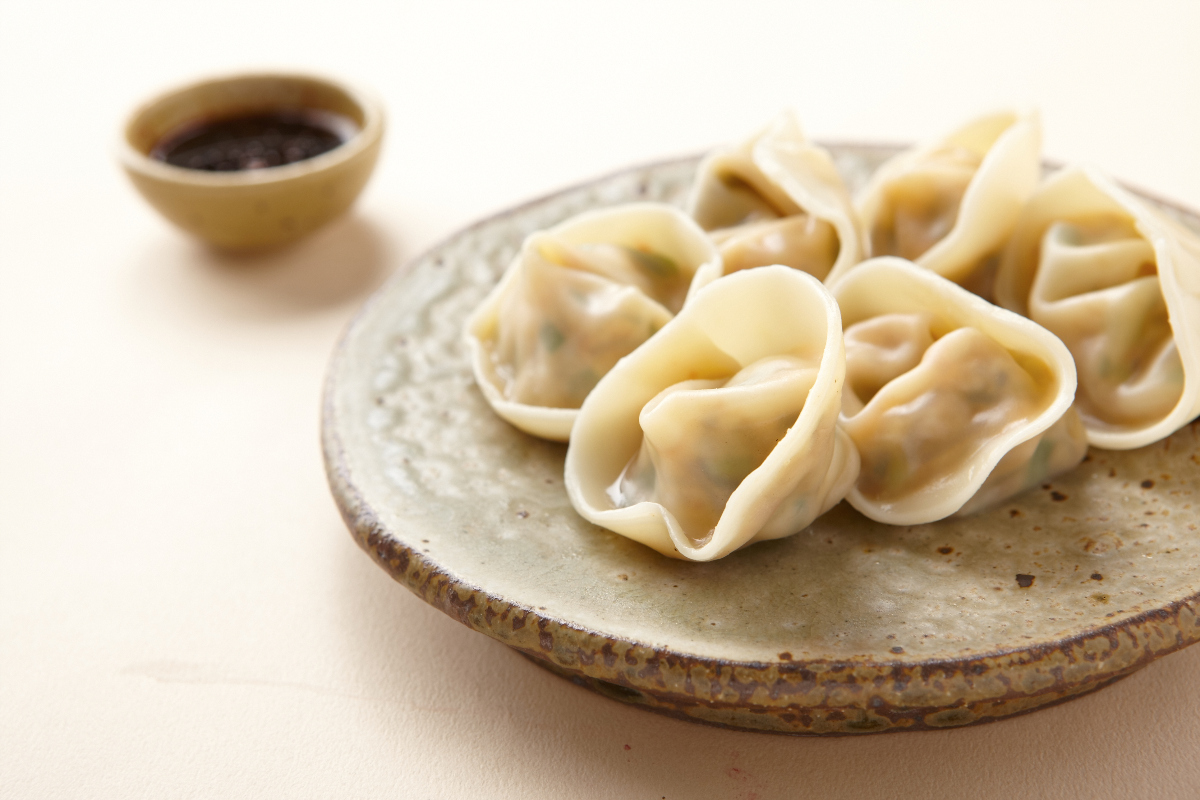 Jjinmandu (steamed dumplings)